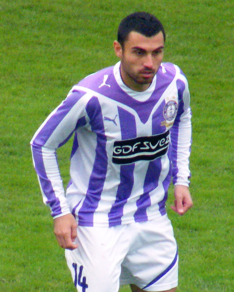 Nikola Mitrović Serbian football player